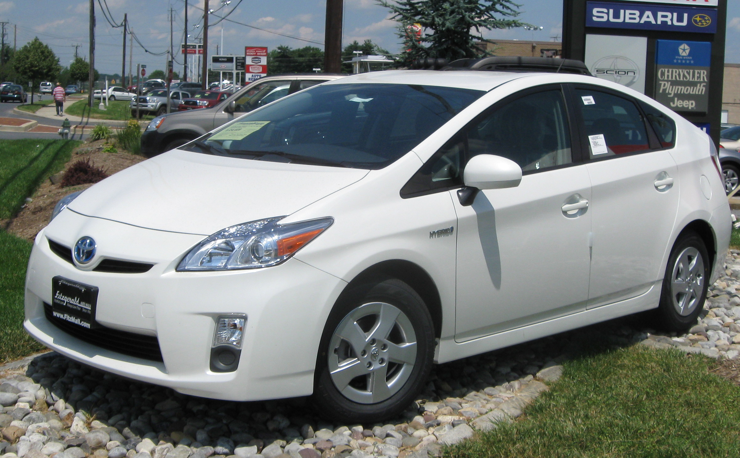 2010 Toyota Prius photographed in Gaithersburg, Maryland, USA.